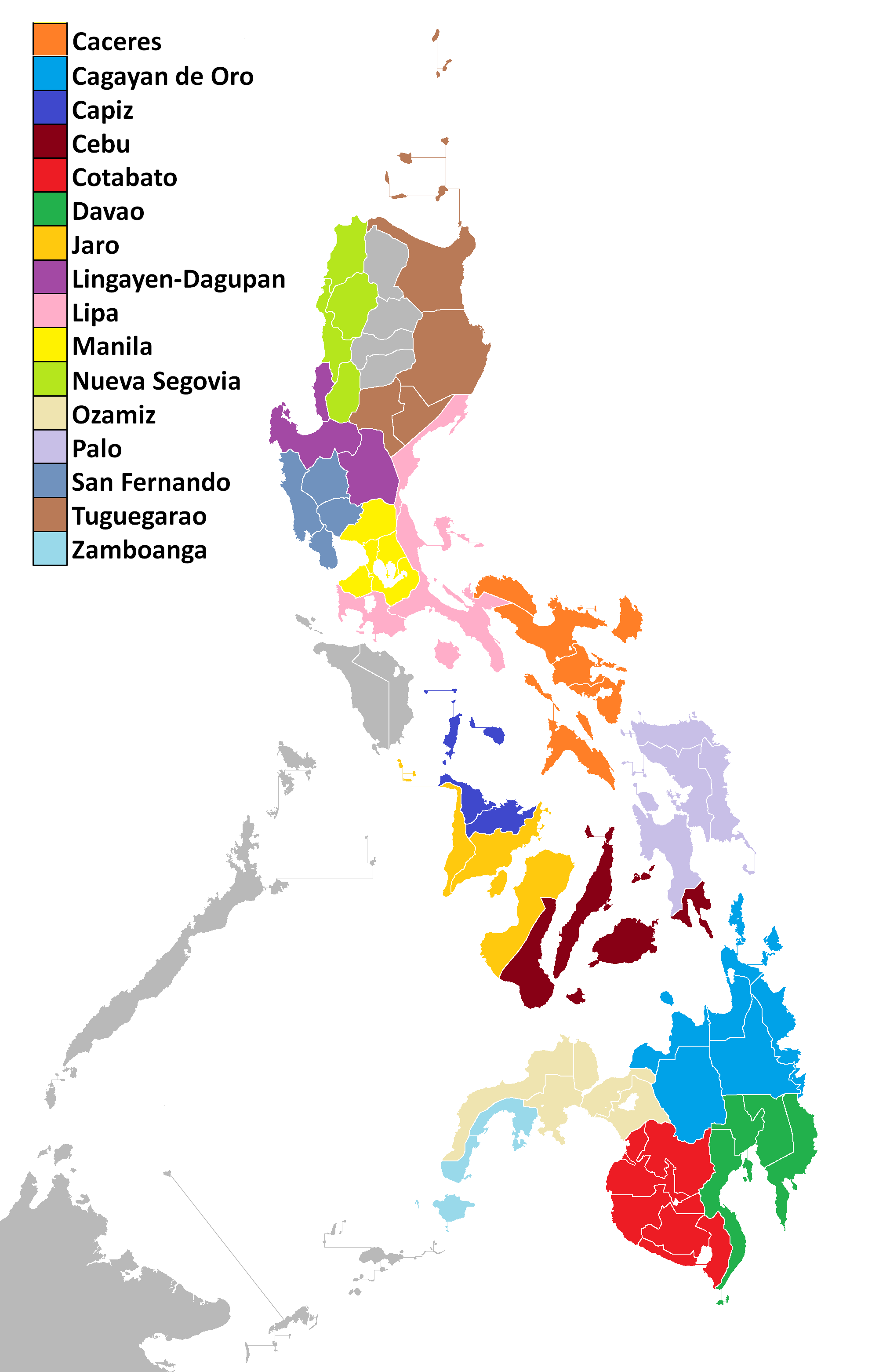 Jurisdictions of the different metropolitan sees of Roman Catholic archdioceses in the Philippines.